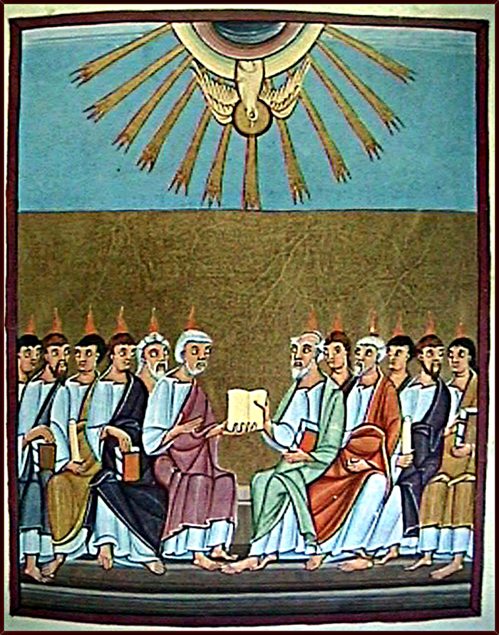 A page from the Bamberg Apocalypse Pentecost